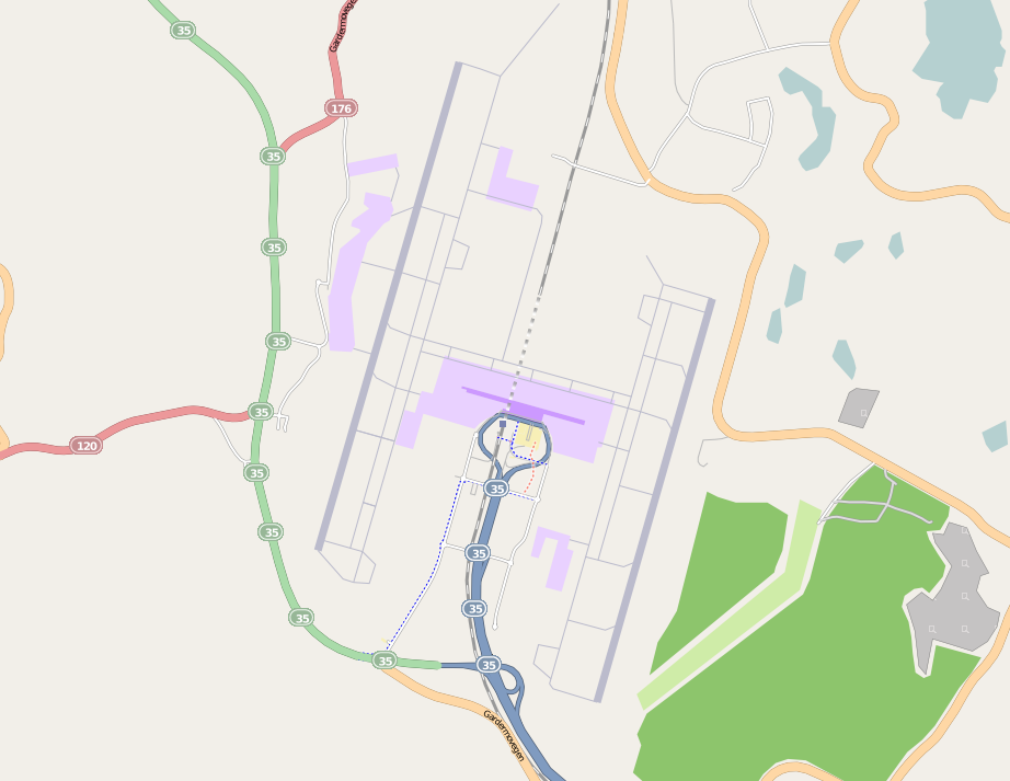 Map over Oslo Airport